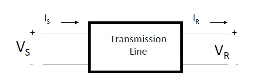 Illustration of a transmission line as a black box for modeling purposes.